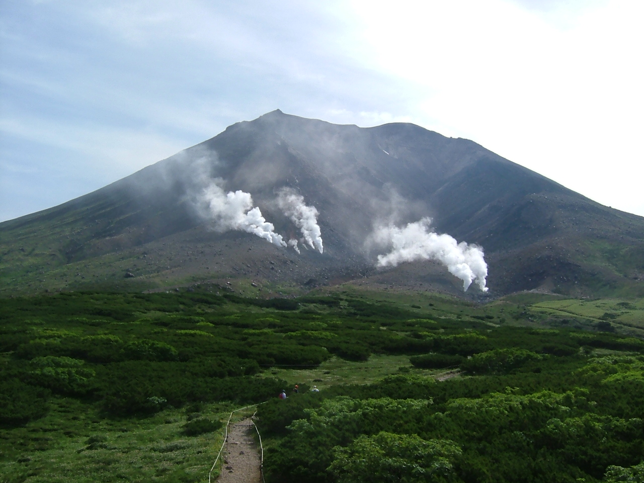 Volcanic Asahidake (Mount Asahi) — the highest mountain in Hokkaido, northern Japan. I took this photo with a digital camera in August 2005.